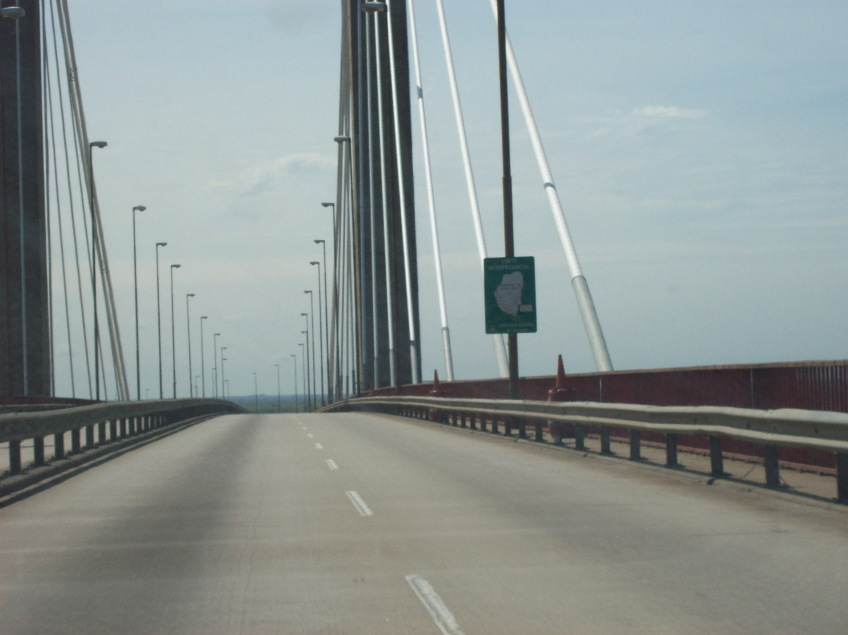 Urquiza Bridge over Paraná Guazú river, in Buenos Aires - Entre Ríos border, Argentina. The border is indicated by the sign.